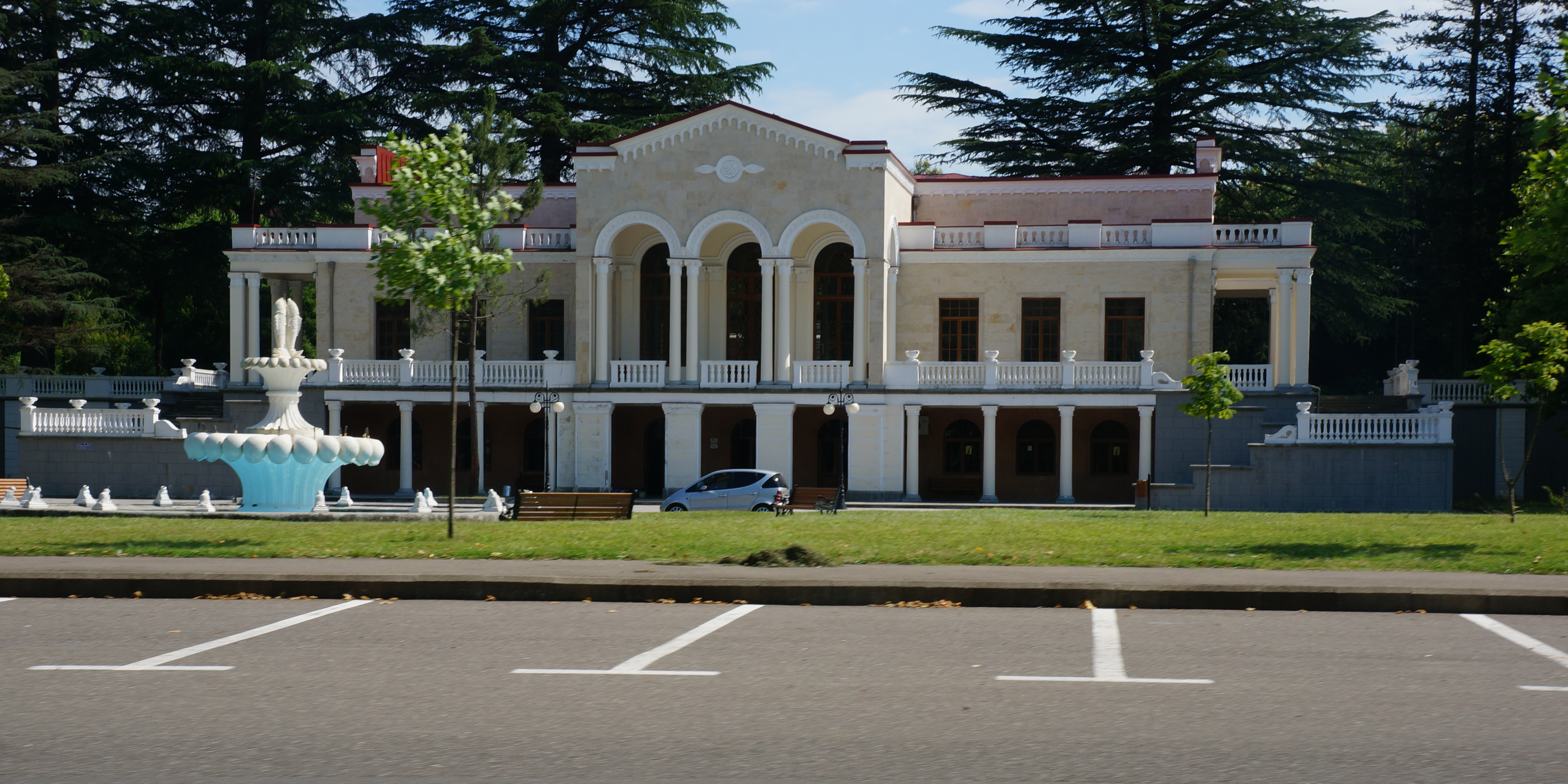 Railway Station of Tskhaltubo Town, Georgia (2017)